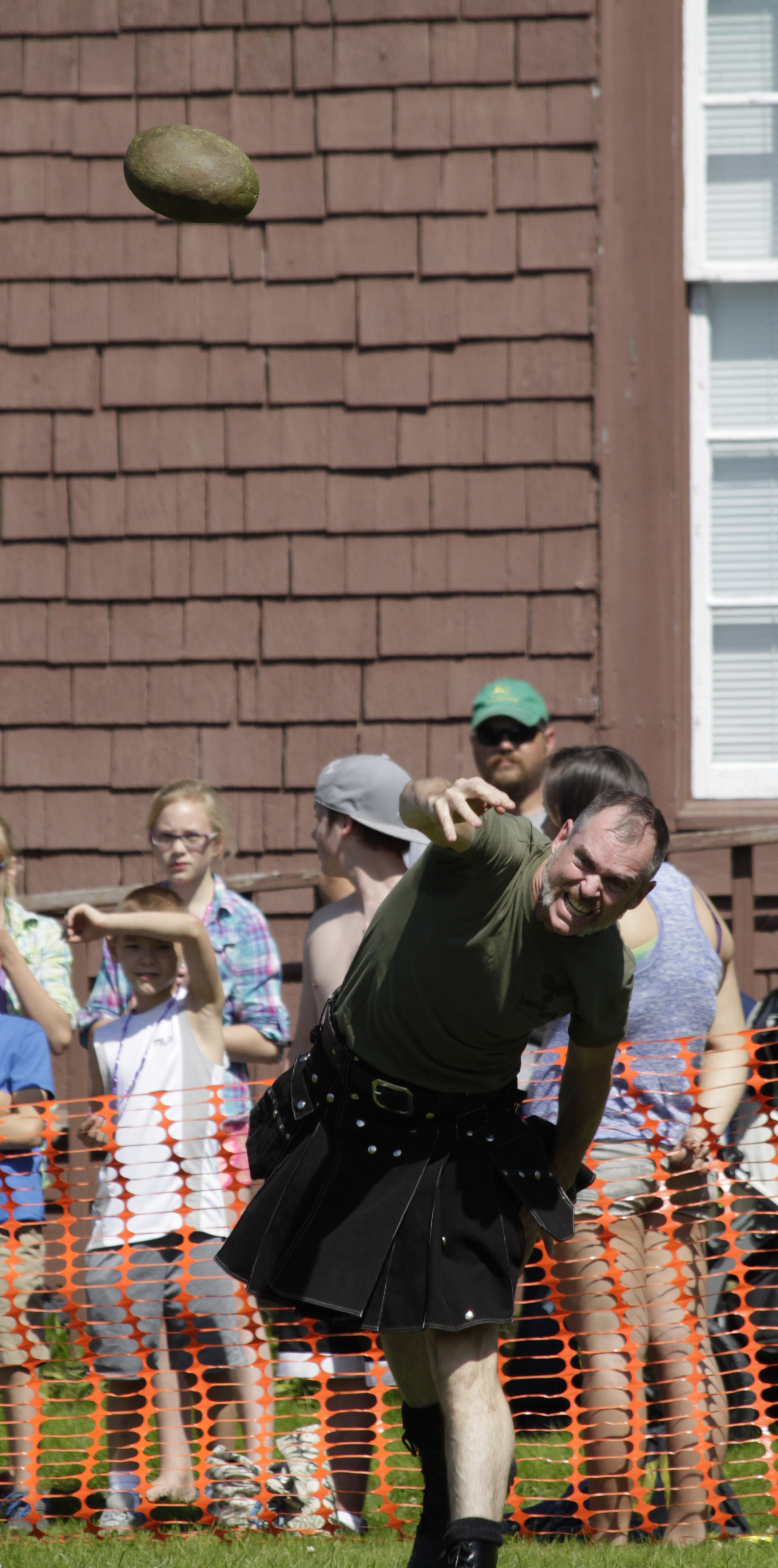 Alan Maloney throws a 16-pound stone during competition in the men's masters division of the Sitka Highland Games on Saturday, Aug. 2, 2014 during the Sitka Seafood Festival.